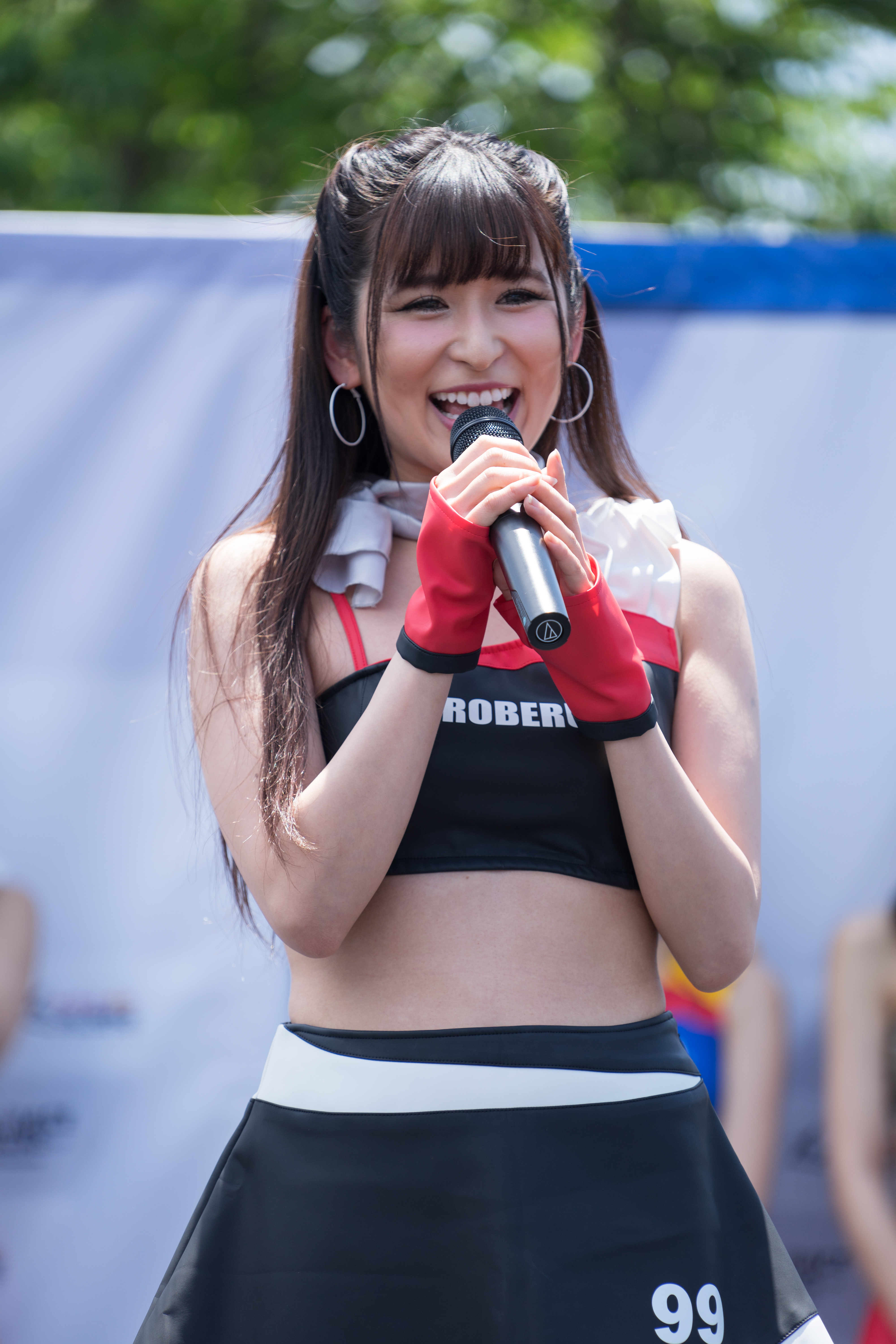 RED BULL AIR RACE CHIBA 2017-258.jpg